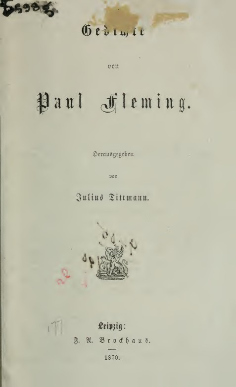 Title page